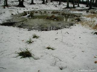 Landscape in Denmark in December (waterhole in Jyderup Forest)